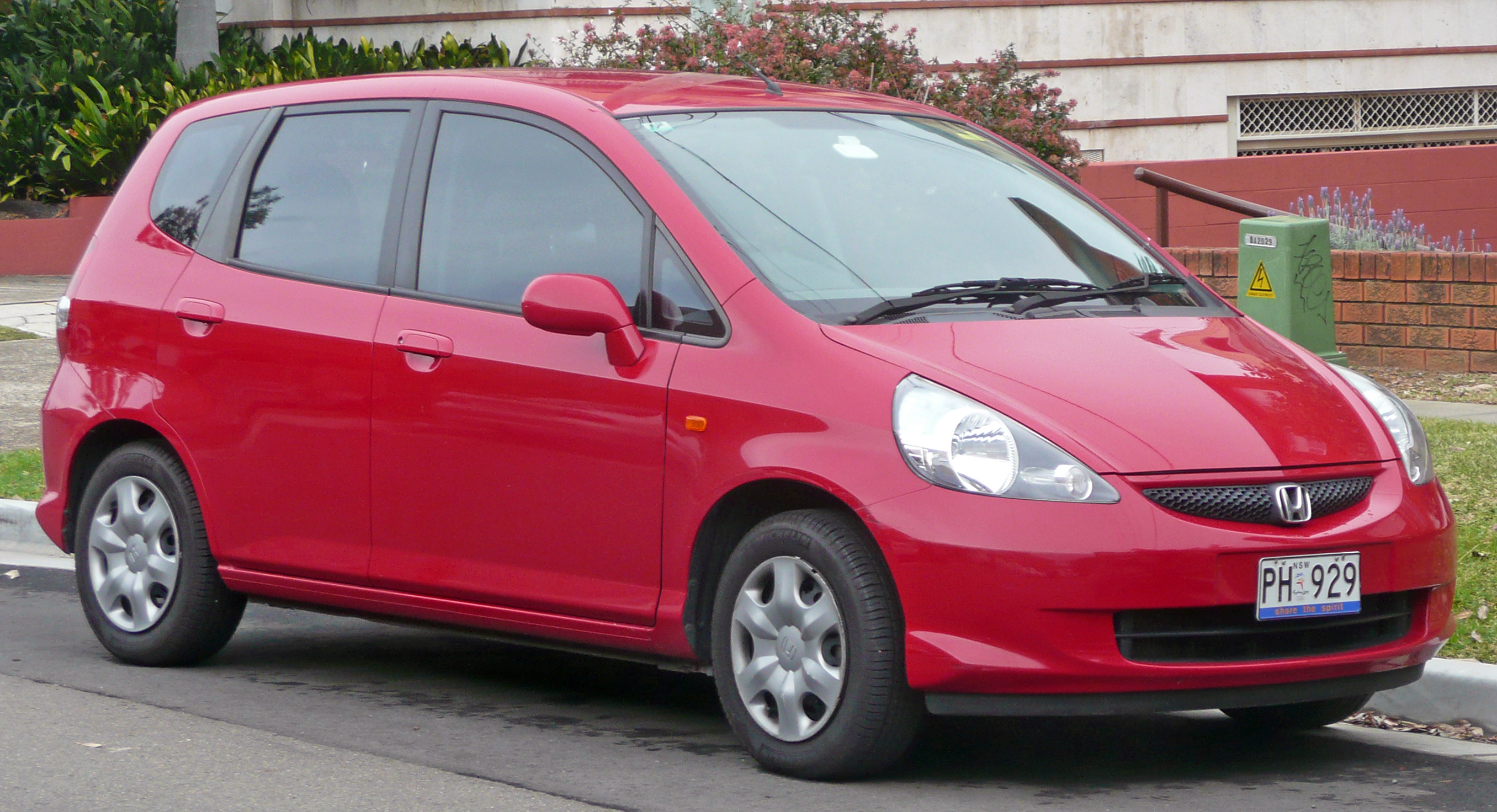 2004–2006 Honda Jazz (GD) hatchback. Photographed in Cronulla, New South Wales, Australia.